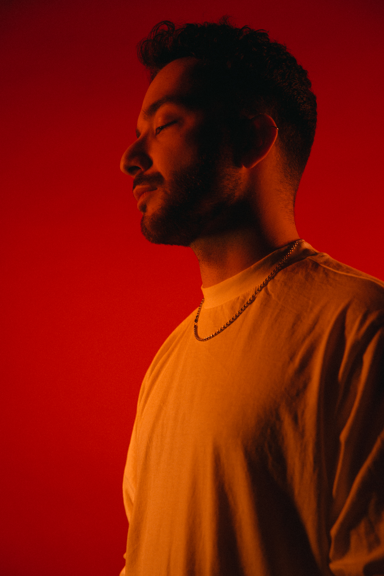 tim aminov